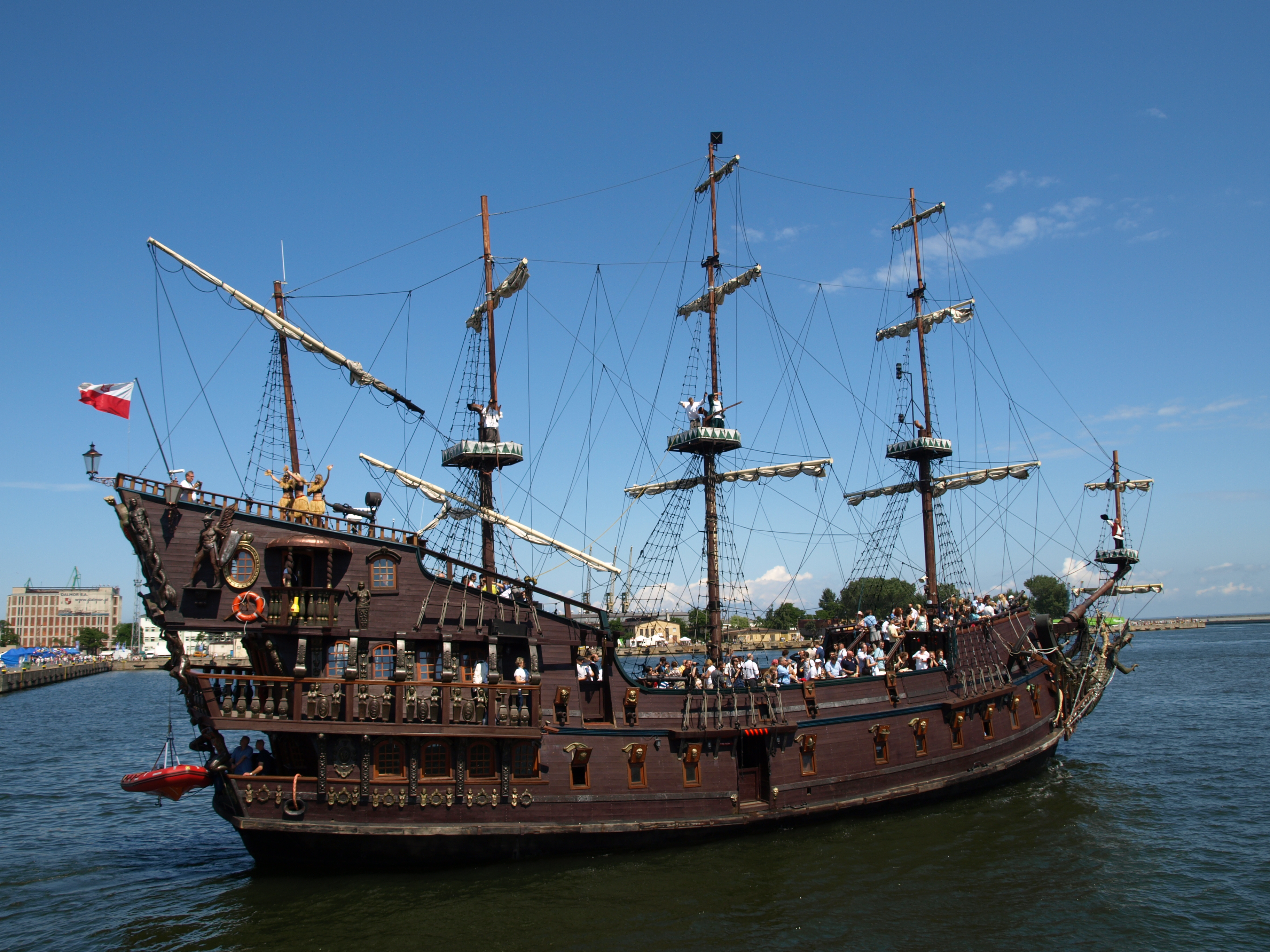 MS Dragon, a stylized galeon-like cruise ship, Tall Ships' Races, Gdynia, 2009